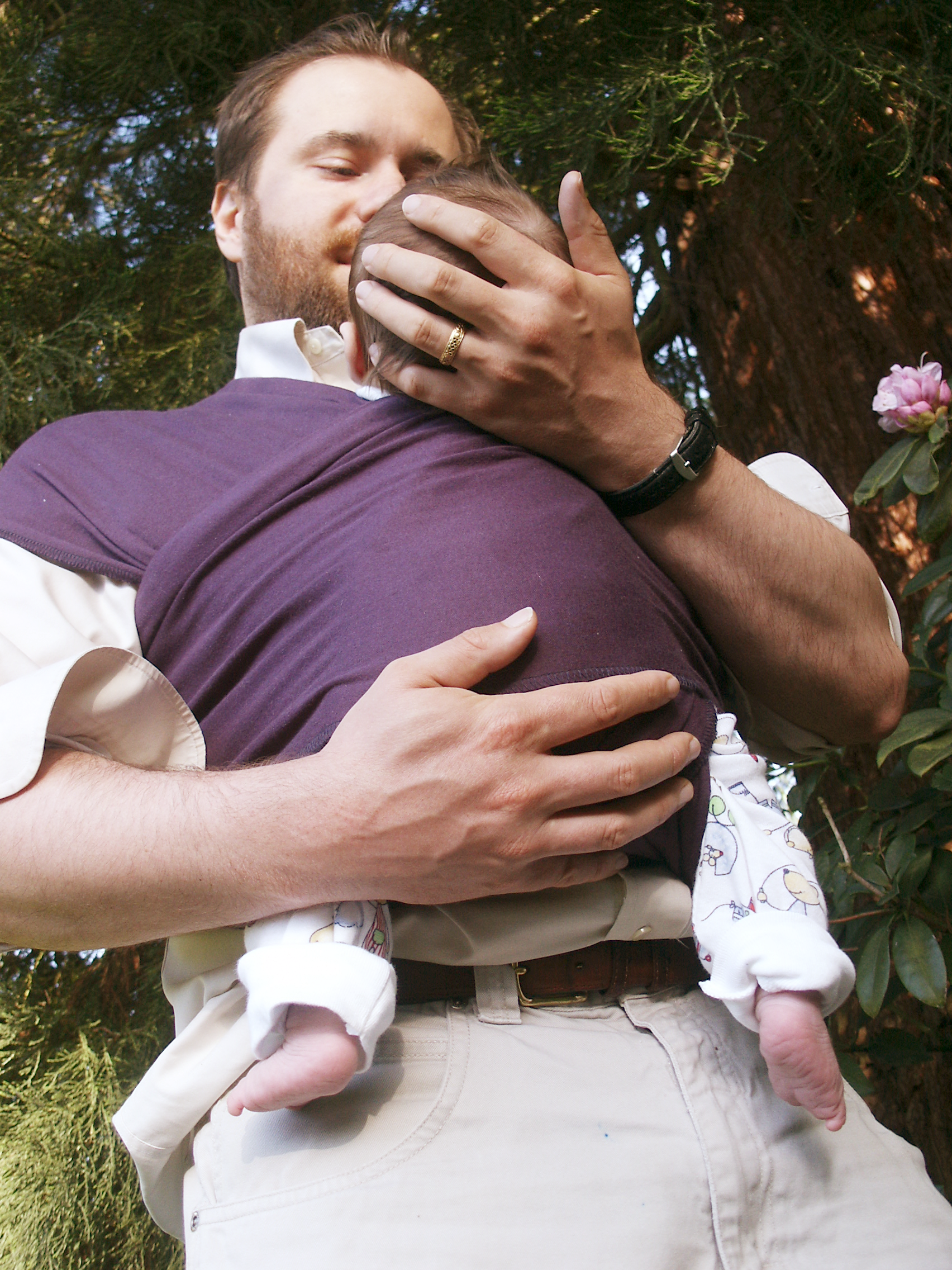 Father holding 7 week old baby in a homemade baby carrier. The carrier is a stretchy wrap (SPOC=Simple Piece of Cloth) made out of a simple, long stretch of cotton interlock fabric. The baby in this picture has a rare chromosome disorder, (del)4q21.1-21.3, or 4q deletion syndrome.